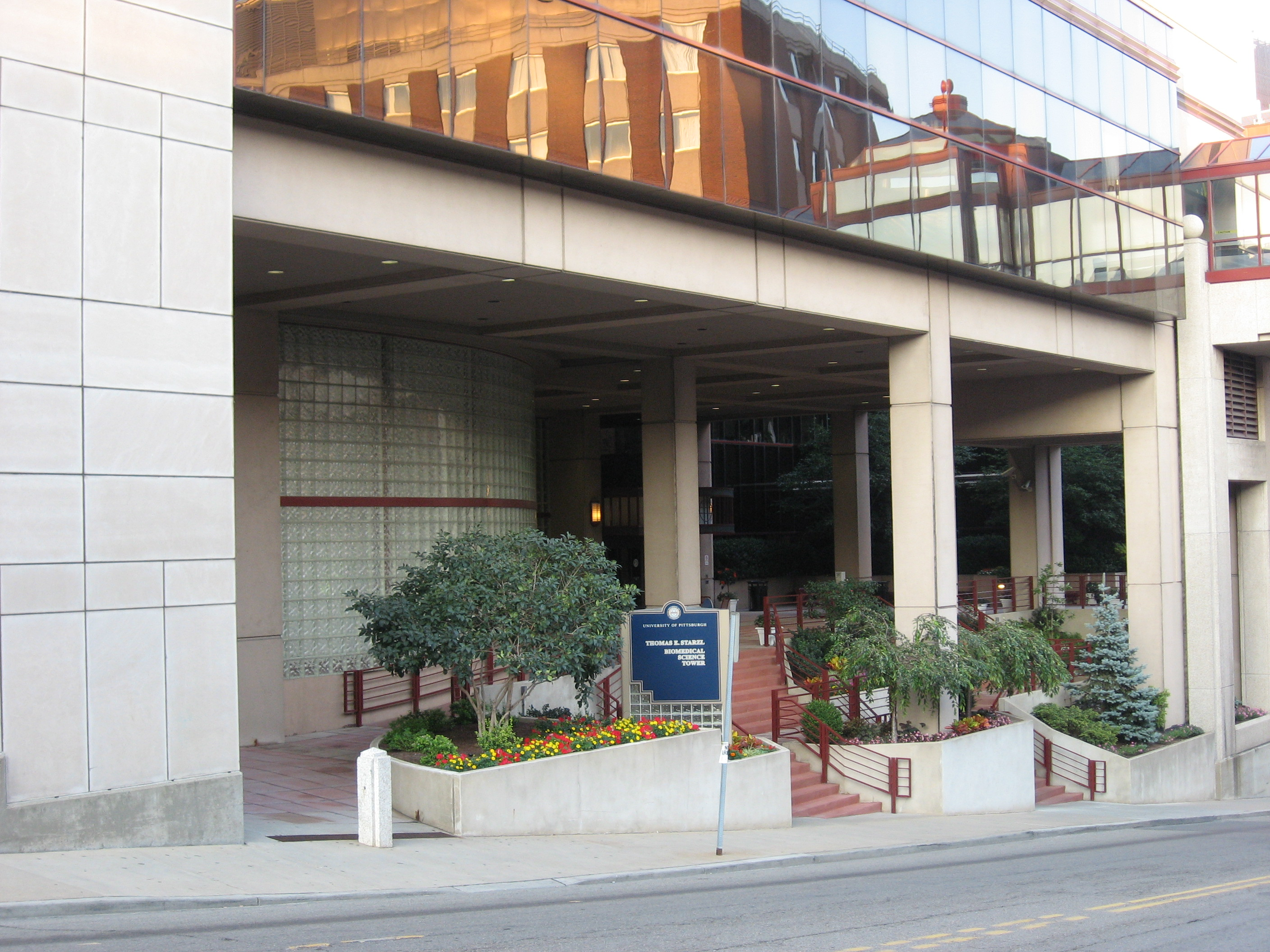 Thomas E. Starzl Biomedical Science Tower at University of Pittsburgh 40°26′29.3″N 79°57′41″W / 40.441472°N 79.96139°W